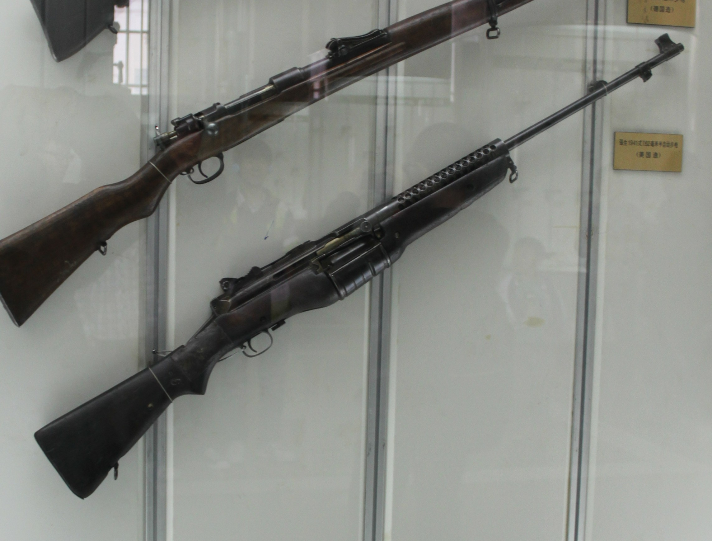 Military Museum: Modern Weapons, Small Arms Gallery. Complete indexed photo collection at .